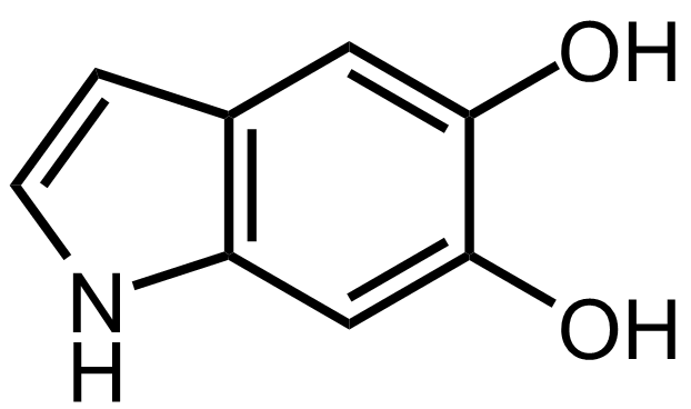 5,6-dihydroxyindole